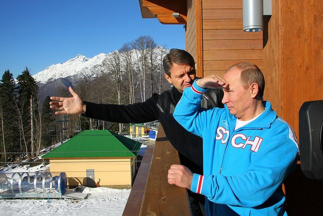 Vladimir Putin with Krasnodar governor Alexander Tkachev, ski resort Krasnaya Polyana, Sochi, Krasnodar Krai, January 3, 2013.